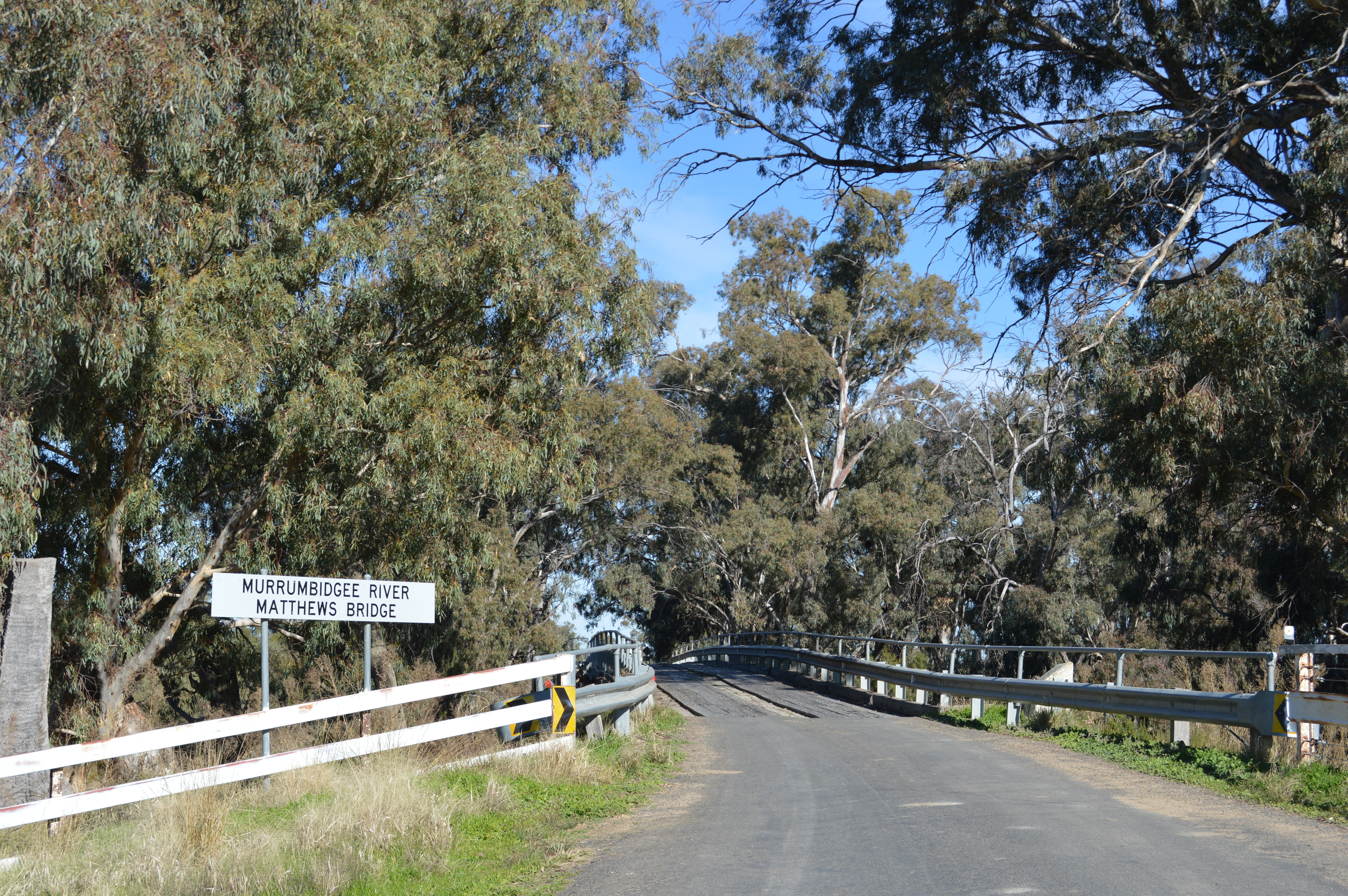 Matthews Bridge over the Murrumbidgee River at Maude, New South Wales